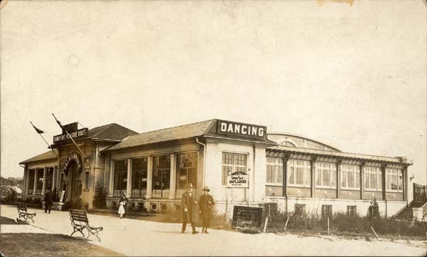 Postcard of the Palais Royale dance hall, Toronto, Canada.